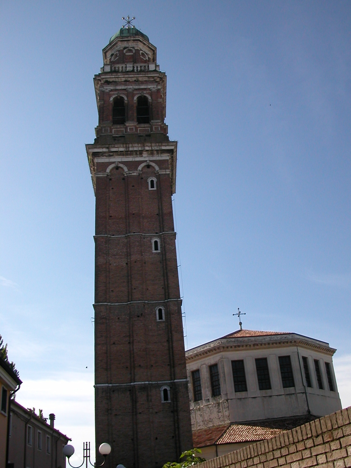 Campanile of Santa Maria del Soccorso Church (called "La Rotonda") in Rovigo